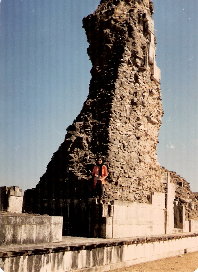 RUINS...